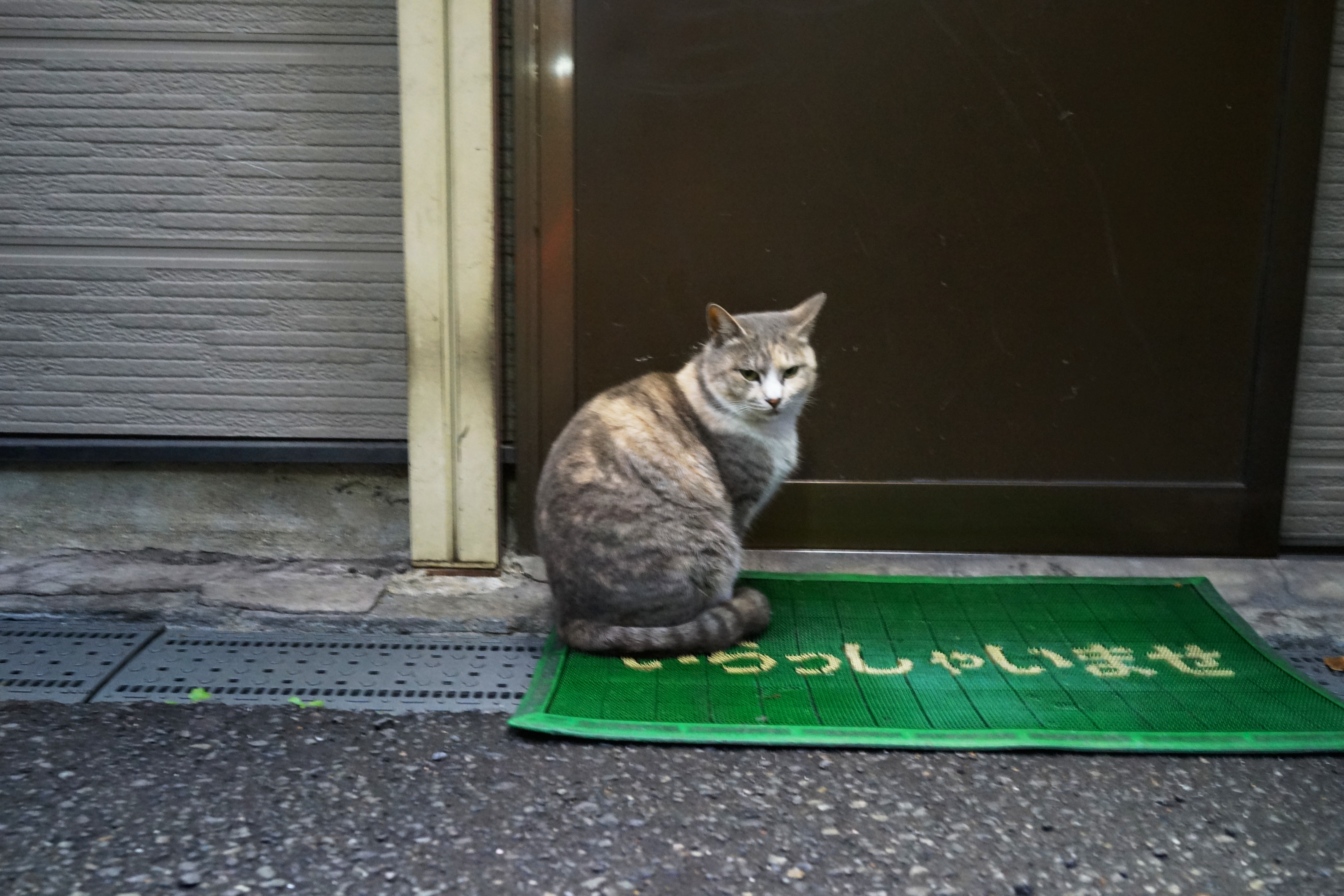 cat (welcome)